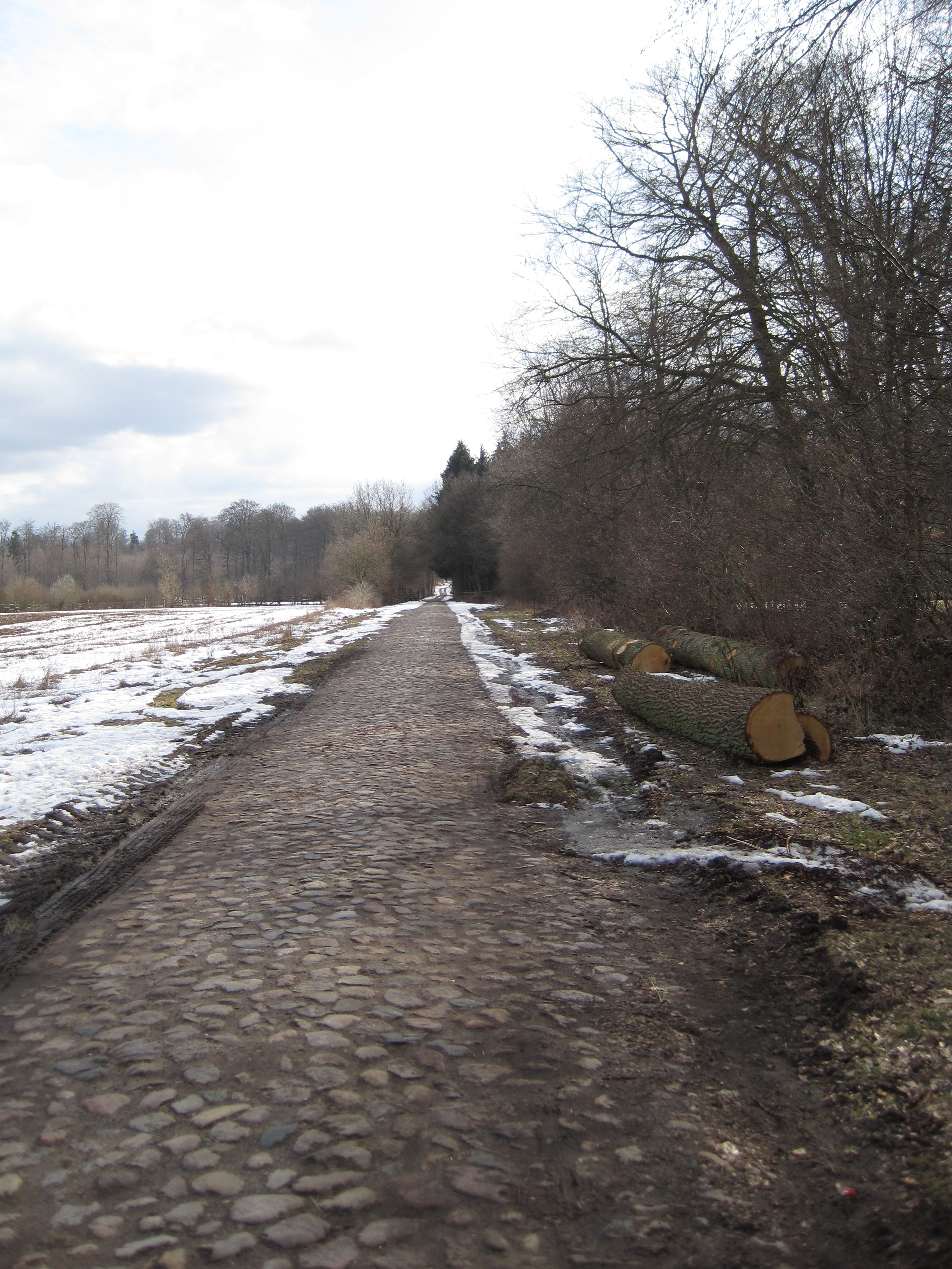 Old salt road